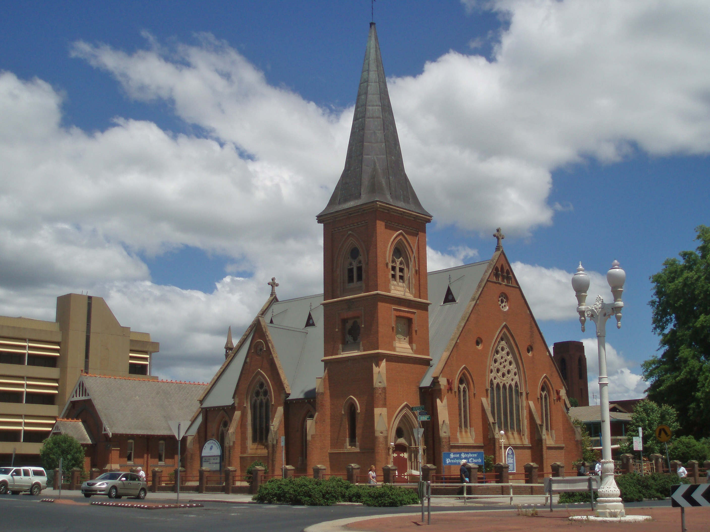 St Stephens Presbyterian Church - Bathurst, New South Wales. Built 1872.